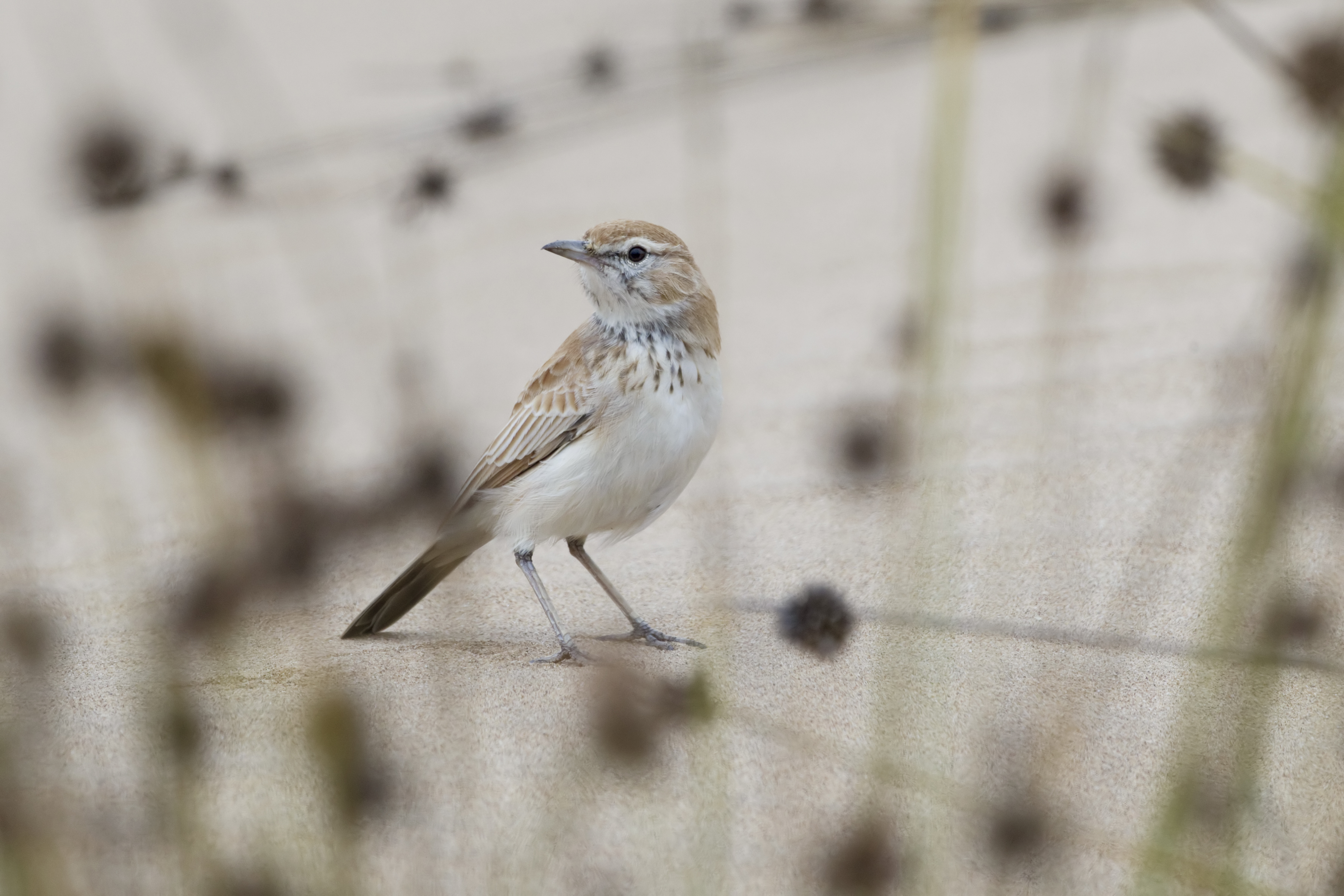 Dune Lark in the Namib Desert near Walvis Bay